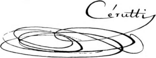 Signature of Joseph-Antoine Cerutti (1738-1792), Italian-born French Journalist.